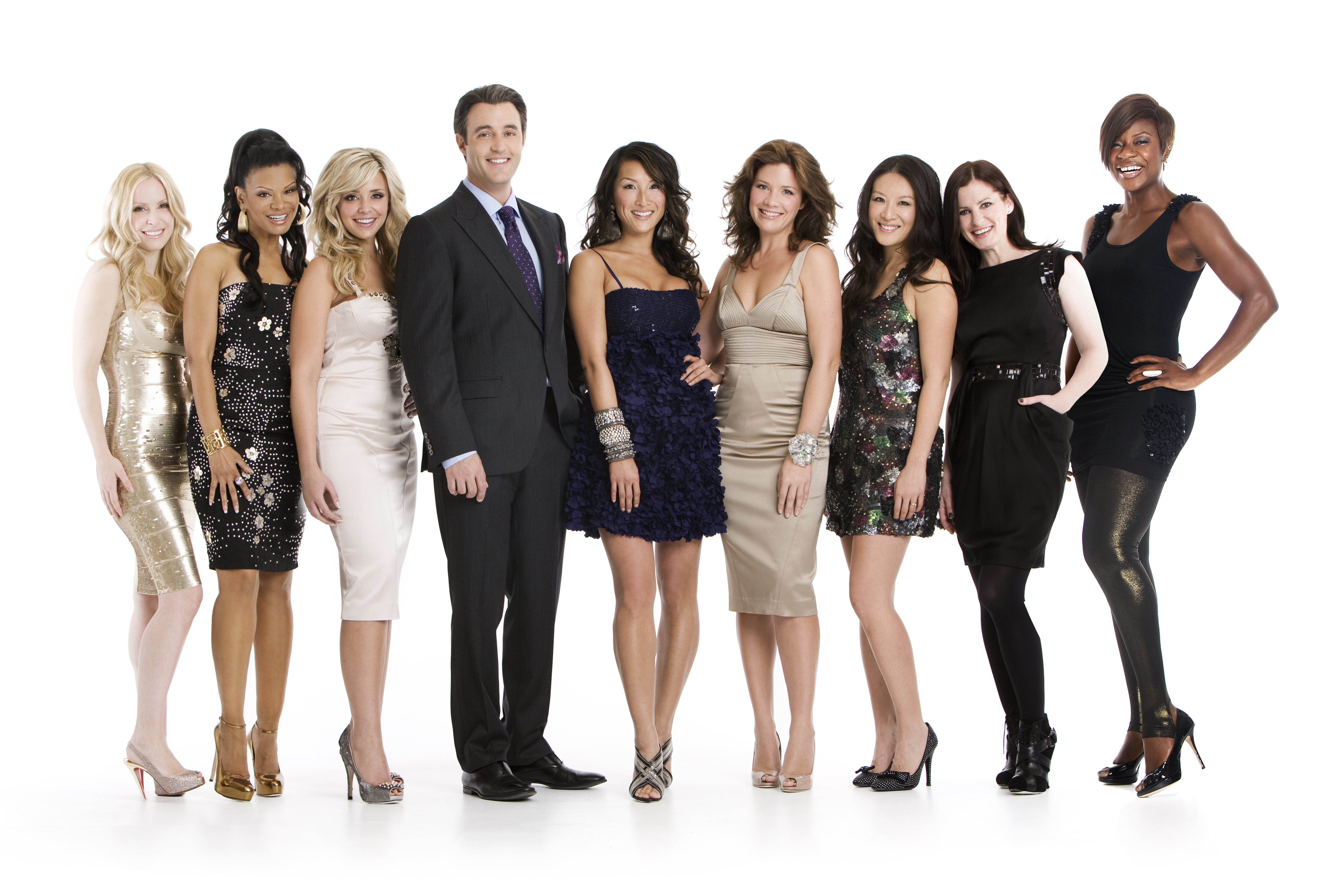 etalk (formerly eTalk Daily) is a Canadian entertainment news show hosted by Ben Mulroney and Tanya Kim.